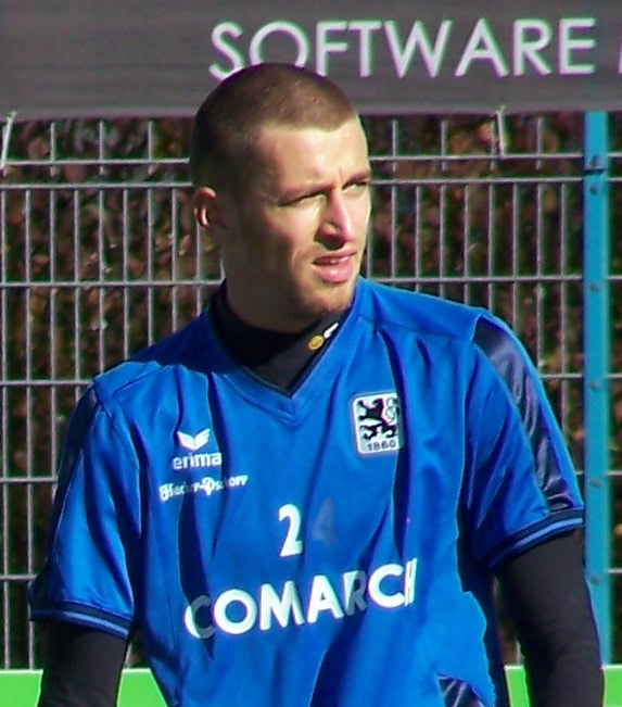 Florin Lovin, 1860 munich, training